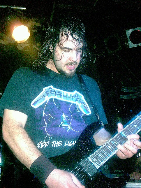 Rob Arnold during concert of Chimaira in Berlin, 24 February 2004